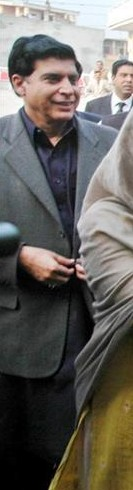 ISLAMABAD : Pakistan's former Prime Minister Benazir Bhutto visits the famous shrine of Golra Sharif on the outskirts of Islamabad, Pakistan on Thursday, Dec. 6, 2007. Kindly Do not use this or any Other Photo posted here in any form without my written permission, even not for any blog or any other such activity.Picture without watermark also available on demand